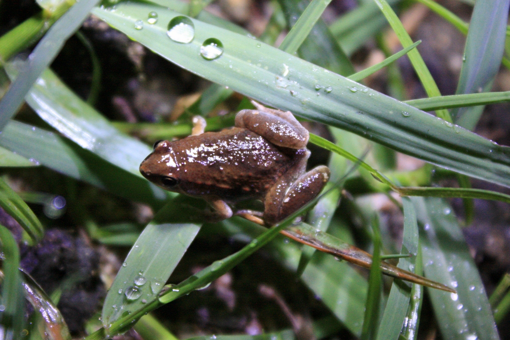 Taken at Lions Nature Education Centre. nb. This species has recently undergone some genetic boundary divisions and definition changes (Matsui et al. 2005). Previously M. ornata was listed as occurring in Hong Kong, but now this species is listed as restricted to the Indian Subcontinent and M. fissipes is the SE Asia and Chinese species. Most online data still reports M. ornata for Hong Kong.